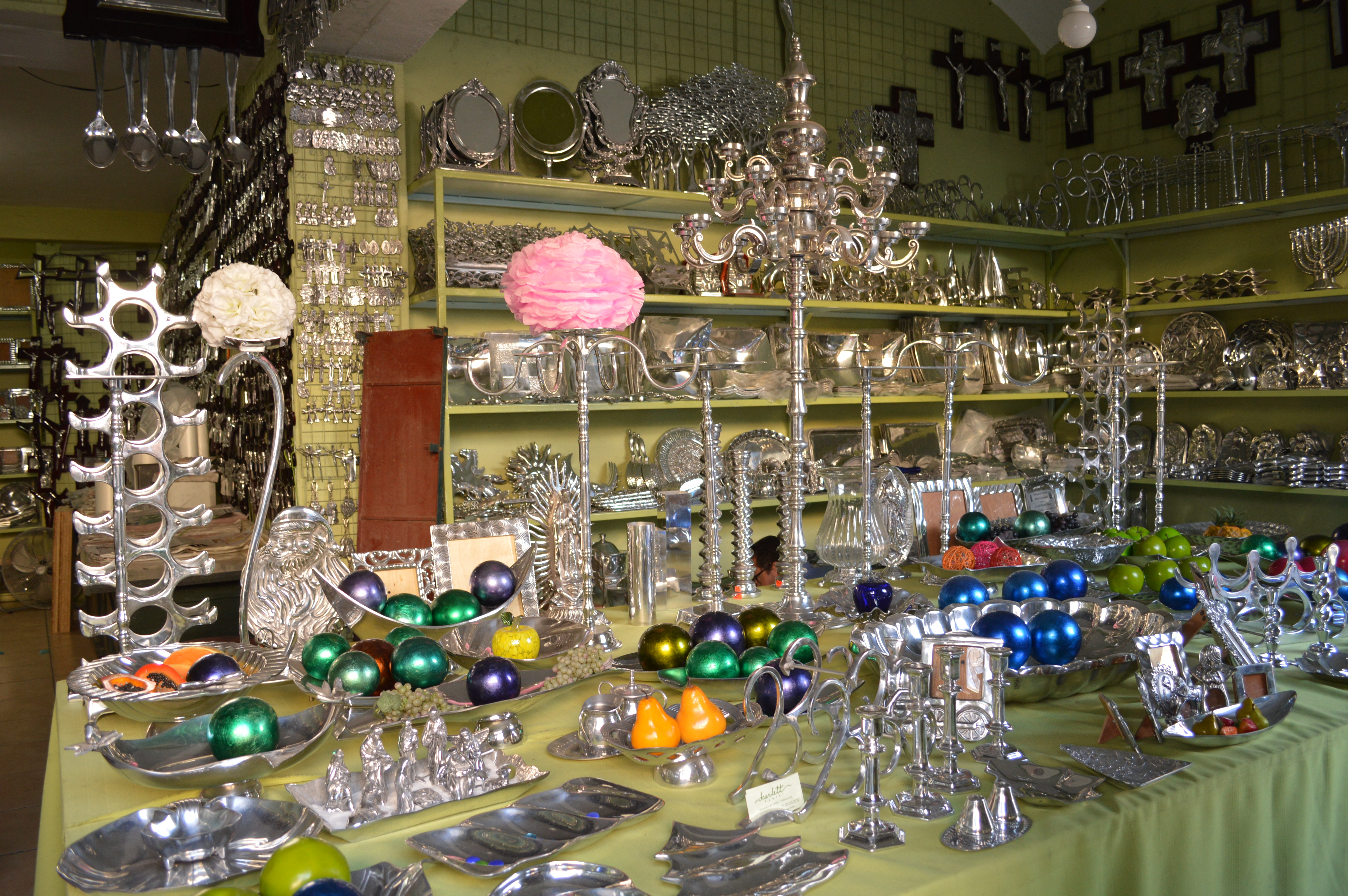 Pewter items in a shop in Tonalá, Jalisco, Mexico